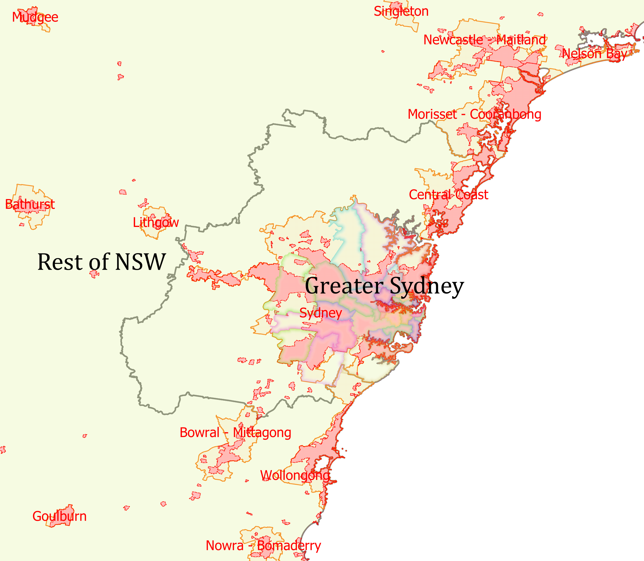 Shown are the various statistical areas defined by the Australian Bureau of Statistics for Sydney and its surrounding area. Thick grey line/black text: the extent of the Greater Sydney *Greater Capital City Statistical Area* (One of eight unique statistical divisions delineating the broadest possible concept of each state/territory capital city, made up of one or more whole labour market area (SA4)), as well as the Rest of NSW area Solid orange lines with stippled fill/red text: *Significant Urban Areas* (statistical divisions representing significant towns and cities of 10,000 people or more, consisting of single or clusters (agglomerations) of urban centres and localities, made up of one or more SA2 units, which are collations of suburbs and localities designed for consistent statistical output) Dashed red lines with pink fill: *Urban Centres/Localities* (statistical divisions delineating the contiguous built up, or urban areas of cities, towns and small settlements, made up of the smallest statistical output areas (SA1)) Outlined coloured areas: the 31 Local Government Areas commonly understood as comprising Sydney, albeit unofficially (e.g. per Wikipedia) Made in QGIS 3.12, using shapefile data from the ABS, licensed under Creative Commons 4.0